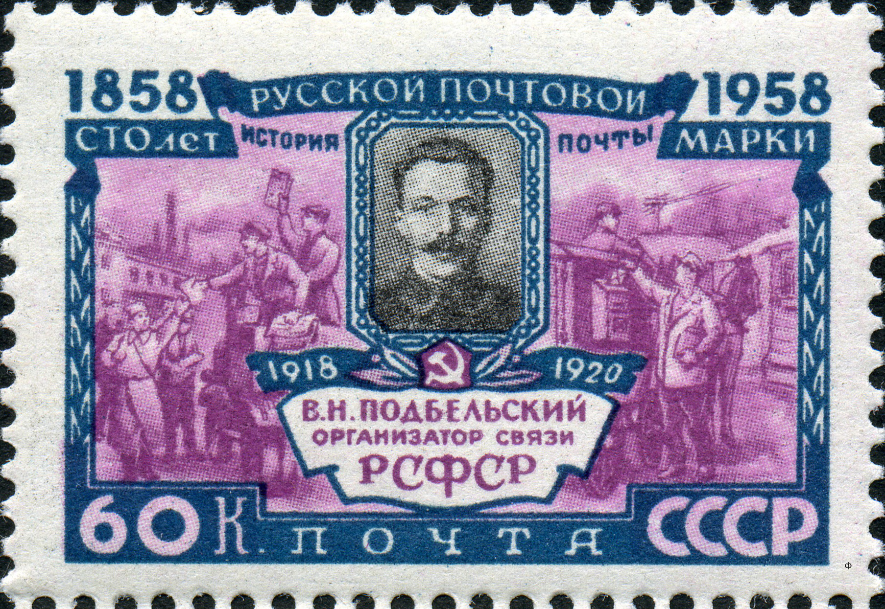 Stamp of the Soviet Union, 100th anniversary of the first Russian stamp, portrait of Vadim Podbelsky (1887 - 1920), CPA #2210.